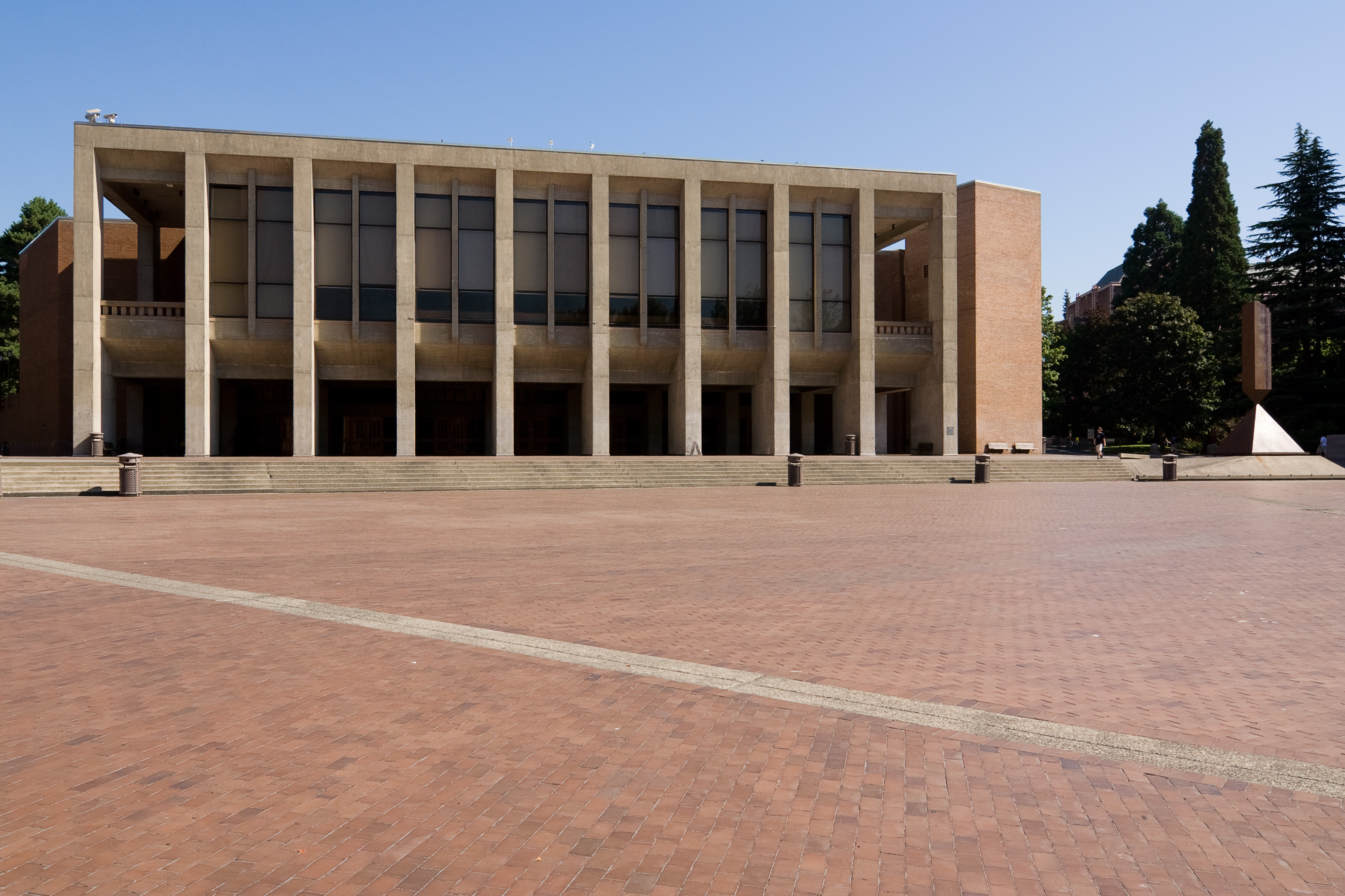 Kane Hall, University of Washington Campus